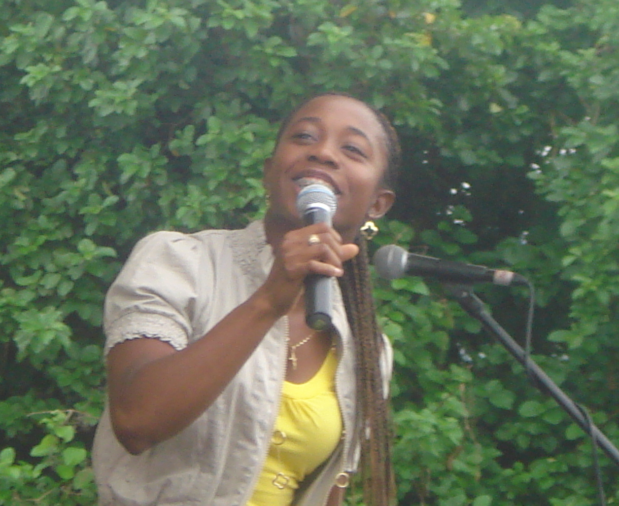 Shelly-Ann Fraser speaking at her Alma Mater October 2008